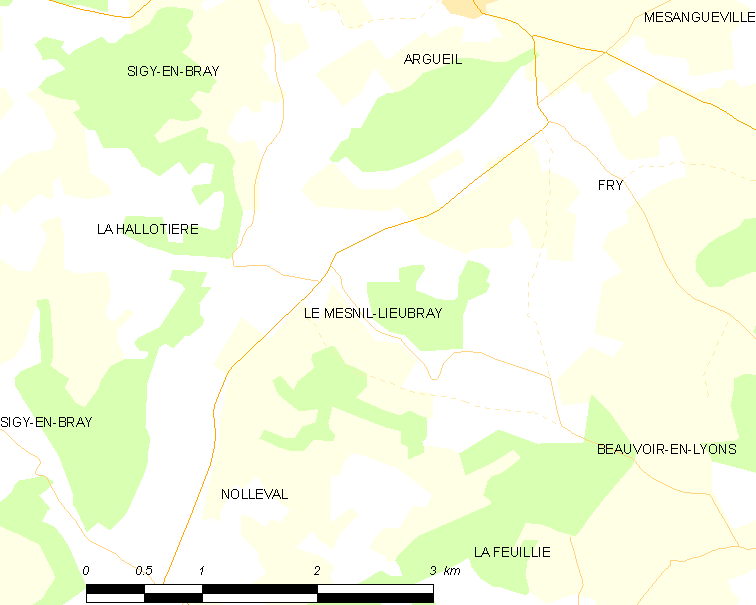 Map of French municipality Le Mesnil-Lieubray